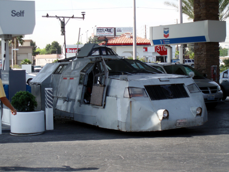 The TIV (Tornado Intercept Vehicle) built from a Ford F-450